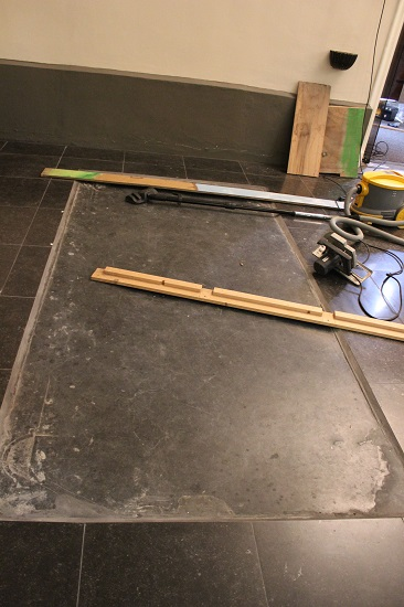 Eleanor of Woodstock Tombstone at the Broederenchurch in Deventer